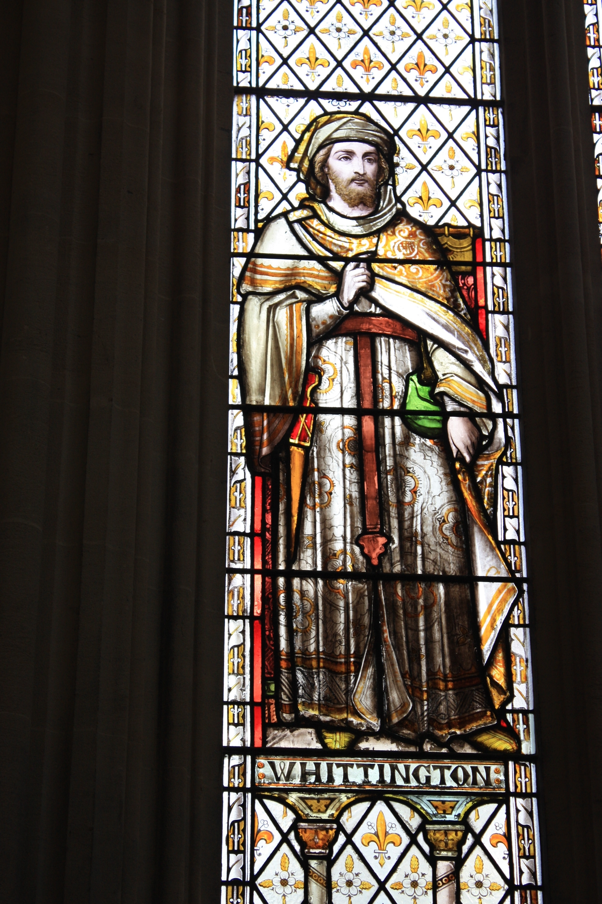 Dick Whittington as portrayed in the stained glass of the Guildhall in London